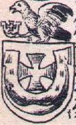 Coat of arms Jastrzębiec from Herby polskie... by Antoni Swach